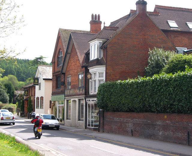 High Street, Bramley opposite the Library The tall Victorian building is the site of the Bramley Brewery, owned by the Smith family. Beer was brewed on this site from 1865 by William Smith. In 1901 his son Morton Smith was listed on the census as brewer and jeweller. In 1904 it was bought by Brufords of Cranleigh and in 1917 it was taken over by Cobham United Breweries. Further down, still visible in the photo, was the Foundry also owned by the Smith family. Charles Smith, William's father bought the foundry in 1847.